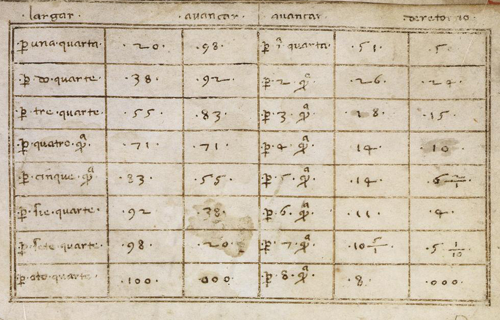 The Toleta de marteloio, a trigonometric table for navigation, from the first page of the ten-sheet atlas by Venetian cartographer Andrea Bianco, dated 1436. Held by the Biblioteca nazionale Marciana, Venice.